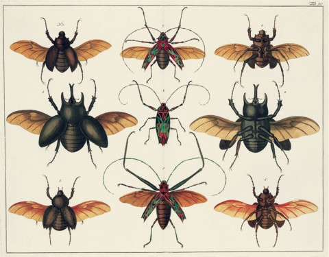 Illustration from a famous 18th-century work of reference, edited by Albertus Seba, a Dutch pharmacist and collector of zoological subjects.